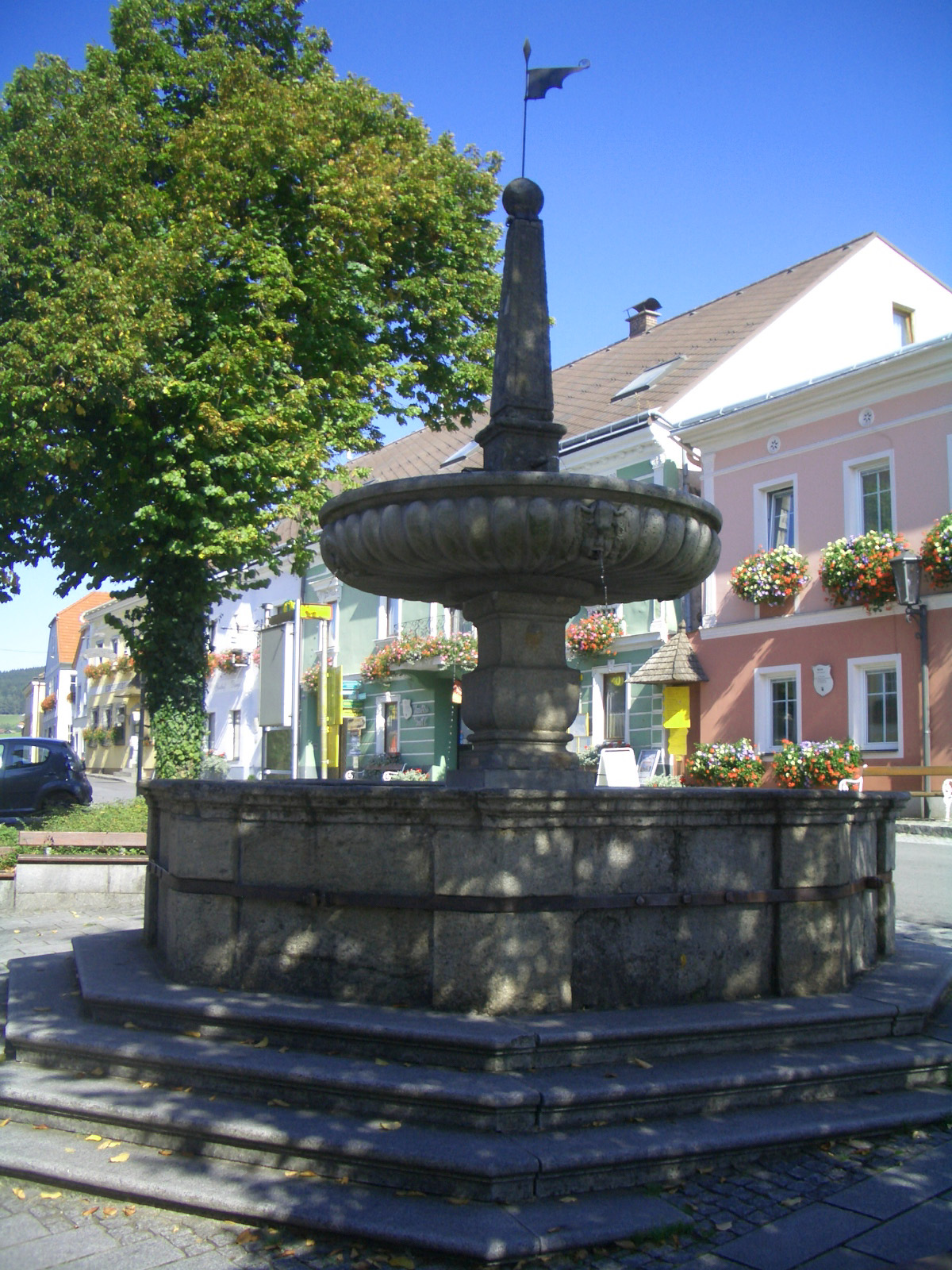 Well on the market place in Königswiesen, Upper Austria